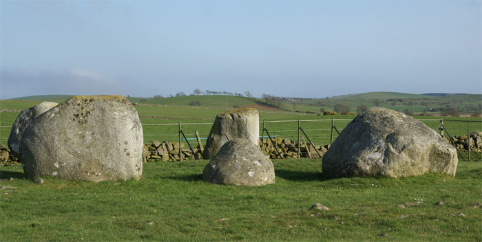 Torhouse Stone Circle, Dumfries and Galloway, Scotland - line of 3 stones in the center of the circle